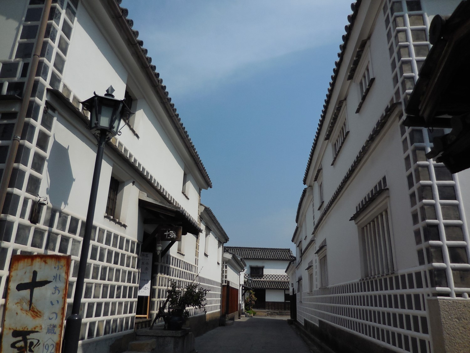 Street at Kurashiki